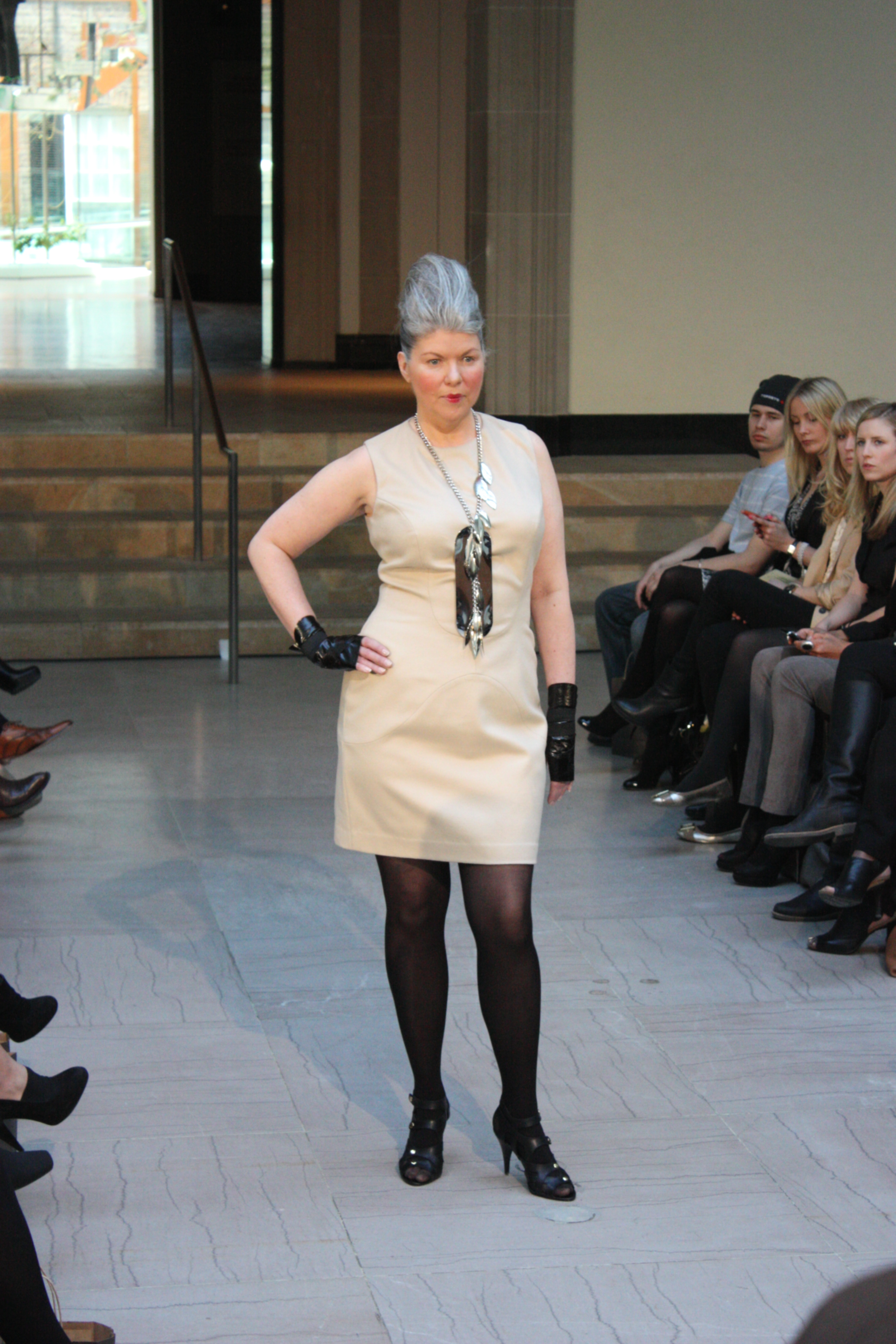 Plus-size model Kate Watson walking at VAWK by Sunny Fong's Fall Winter 2010 runway presentation. Watson was discovered by Ben Barry, founder of the Ben Barry agency. Photo by russless1